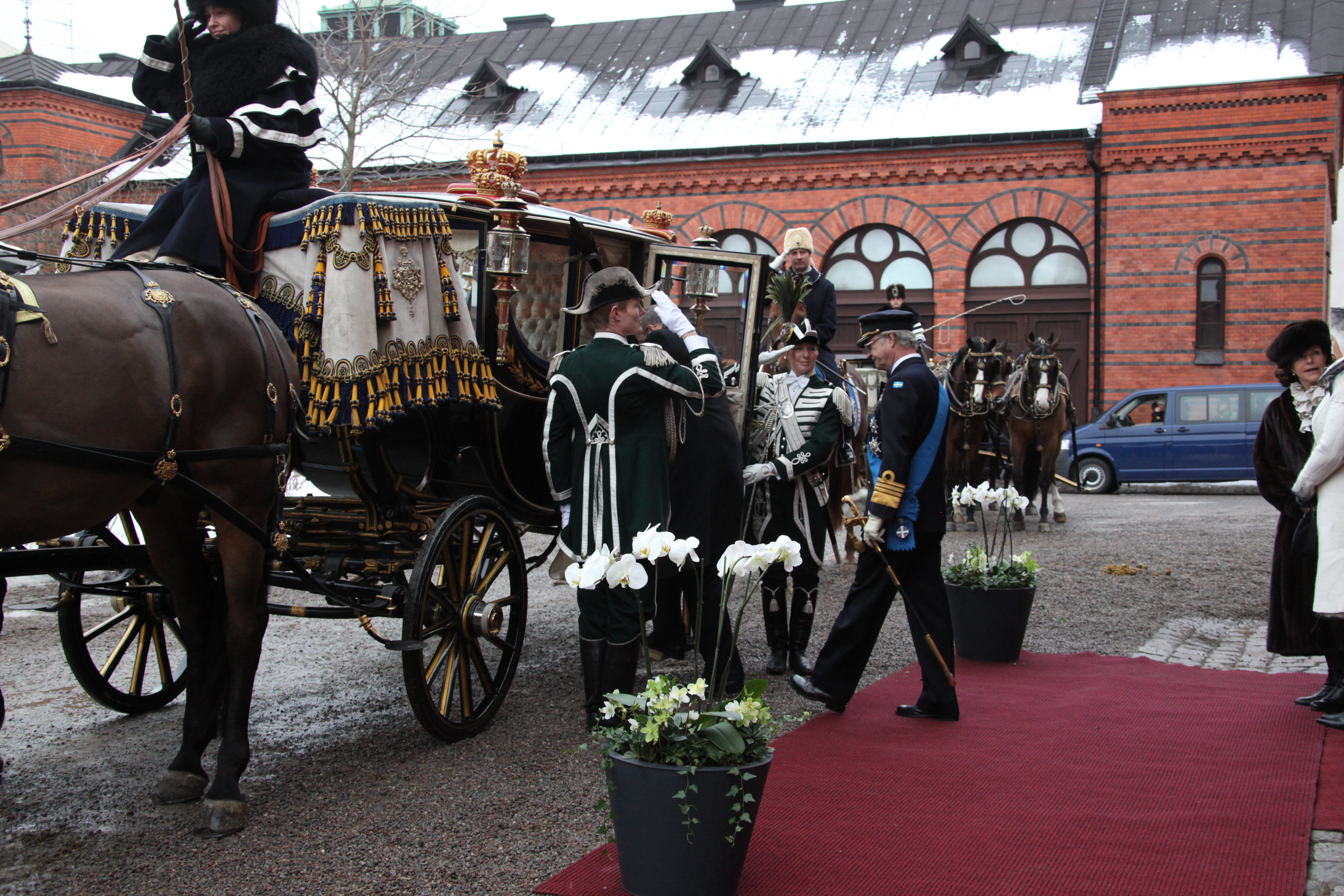 State visit to Stockholm, Sweden, 19-19-20-January 2011